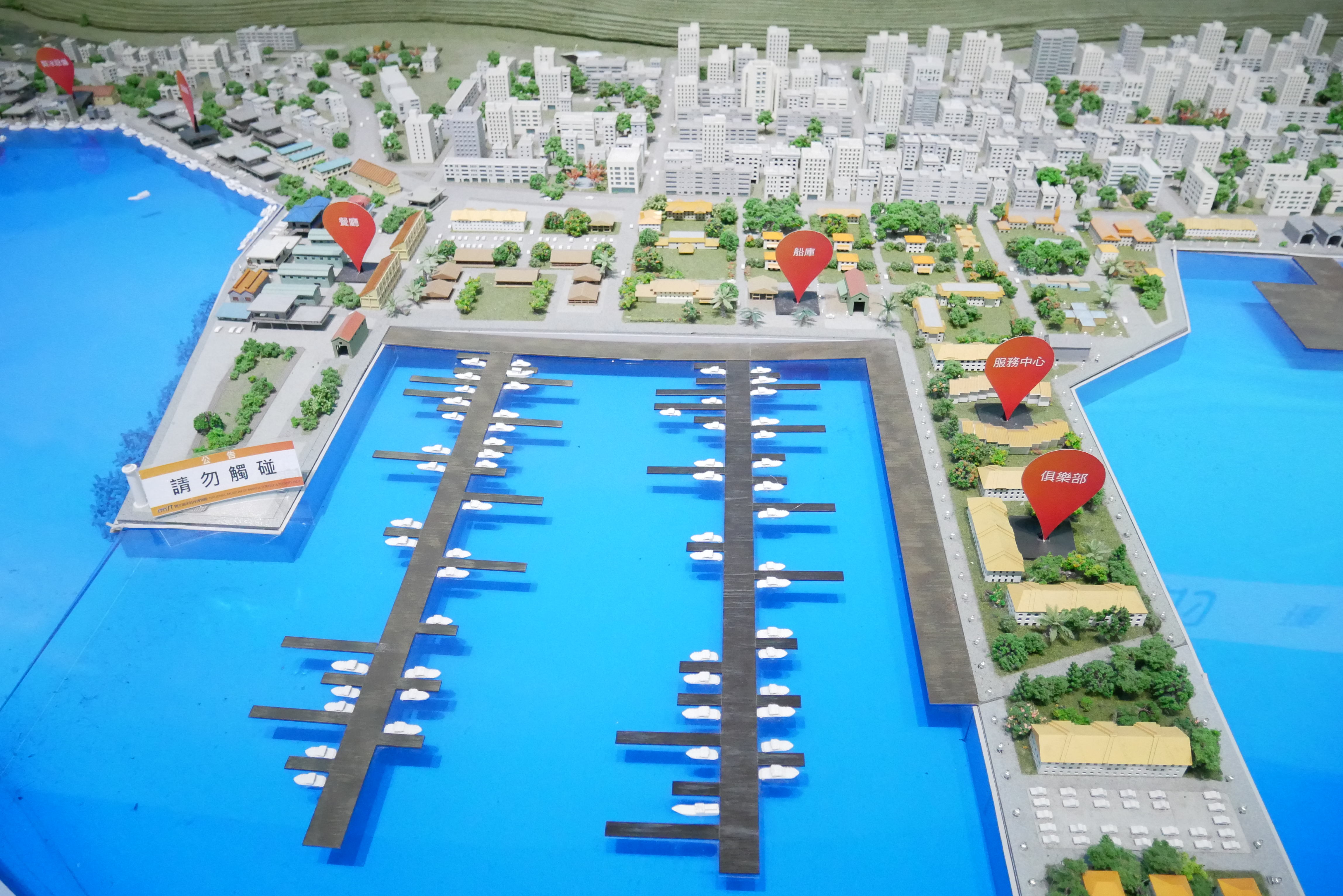 國立海洋科技博物館內漁港模型，基隆市中正區長潭里